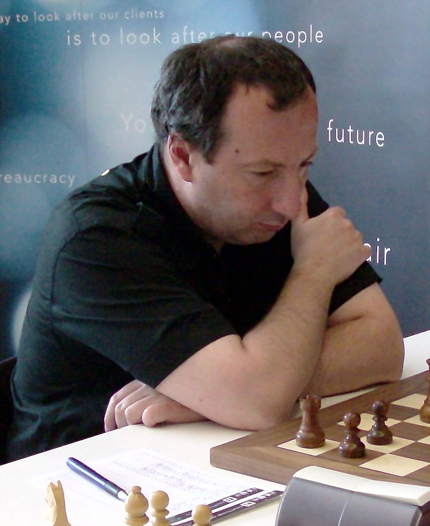 Petr Velička, chess grandmaster from the Czech Republic